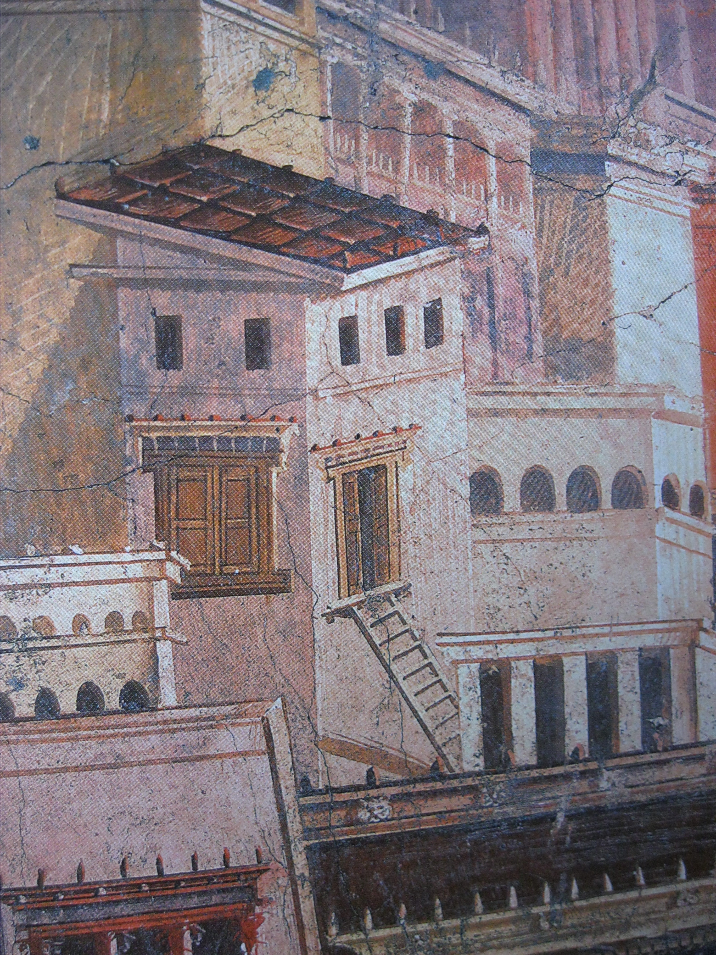 Fresco Fragment, villa Boscoreale